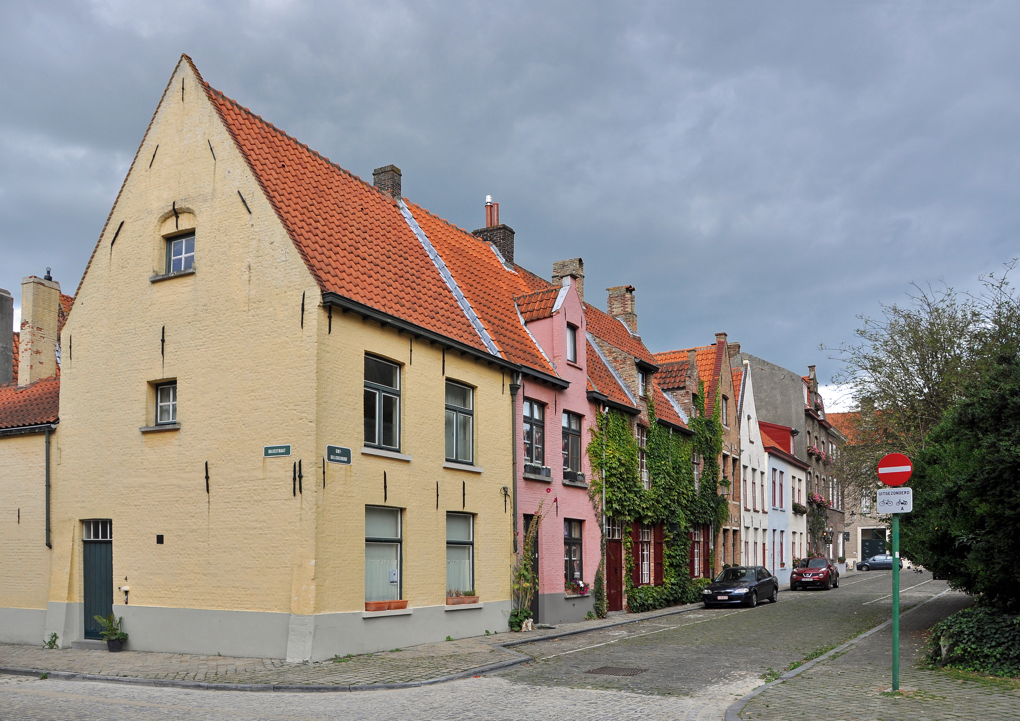 Bruges (Belgium): Sint-Gilliskerkhof (street)